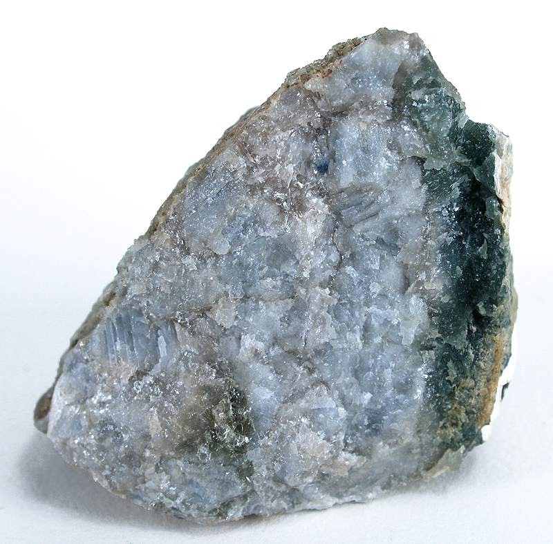 Wellsite Locality: Buck Creek Mine (Cullakenee Mine), Buck Creek, Clay County, North Carolina, USA (Locality at ) Size: 4.5 x 4.2 x 3.8 cm. According to MINDAT this species was discredited after many years, only in 1997. It is now thought to be either barian Phillipsite-Ca or calcian Harmotome - though I have not analyzed this specimen to see which of these close relatives it trends to most. Originally described from Buck Creek Mine (Cullakenee Mine), Buck Creek, Clay Co., North Carolina, this locality. At the time, it was thought fairly important as it was owned by the great 1800's collector G.J. Brush who gave his collection to Yale…and then the Academy must have traded it from Yale to obtain a sample. Ex. Academy of Natural Sciences Philadelphia Collection.